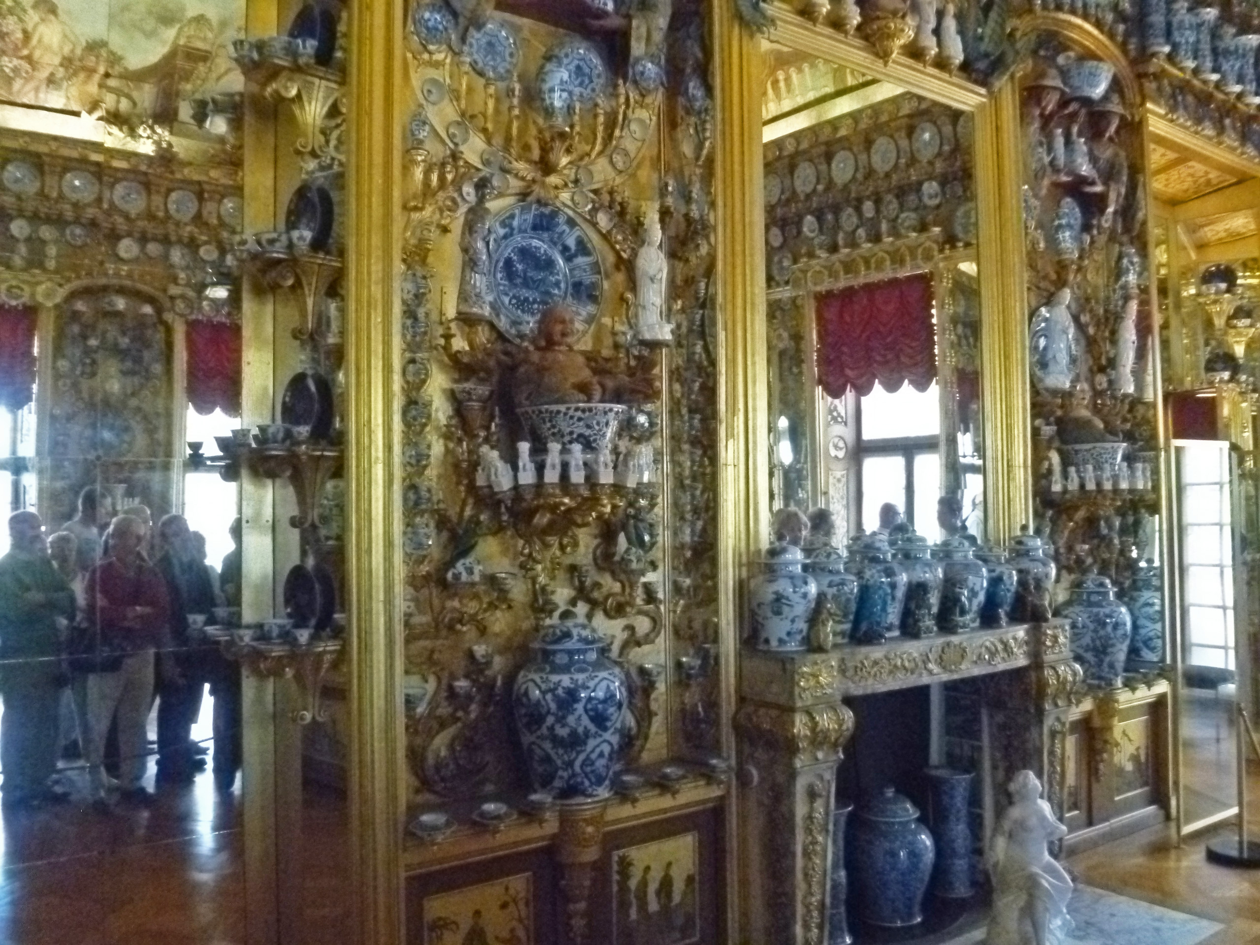 Porcelain cabinet of Friedrich I; Charlottenburg Palace, Berlin, Germany